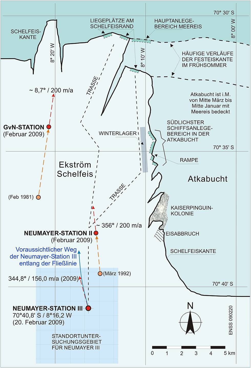 Position and drift direction of the 3 Neumayer-Stations at Atka-bay, Ekström-shelf ice, Weddell-sea, Antarctica.